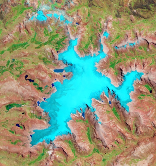 Quelccaya Ice Cap on 2010 25 09